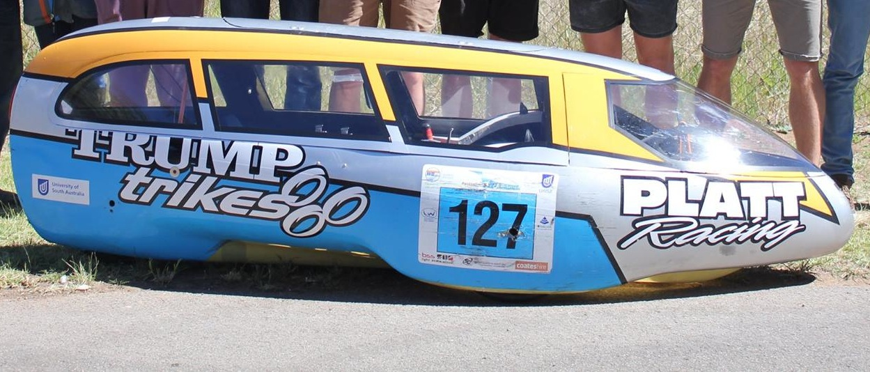 Platt Racing bike from team photo before the 2014 Murray Bridge 24 Hour.